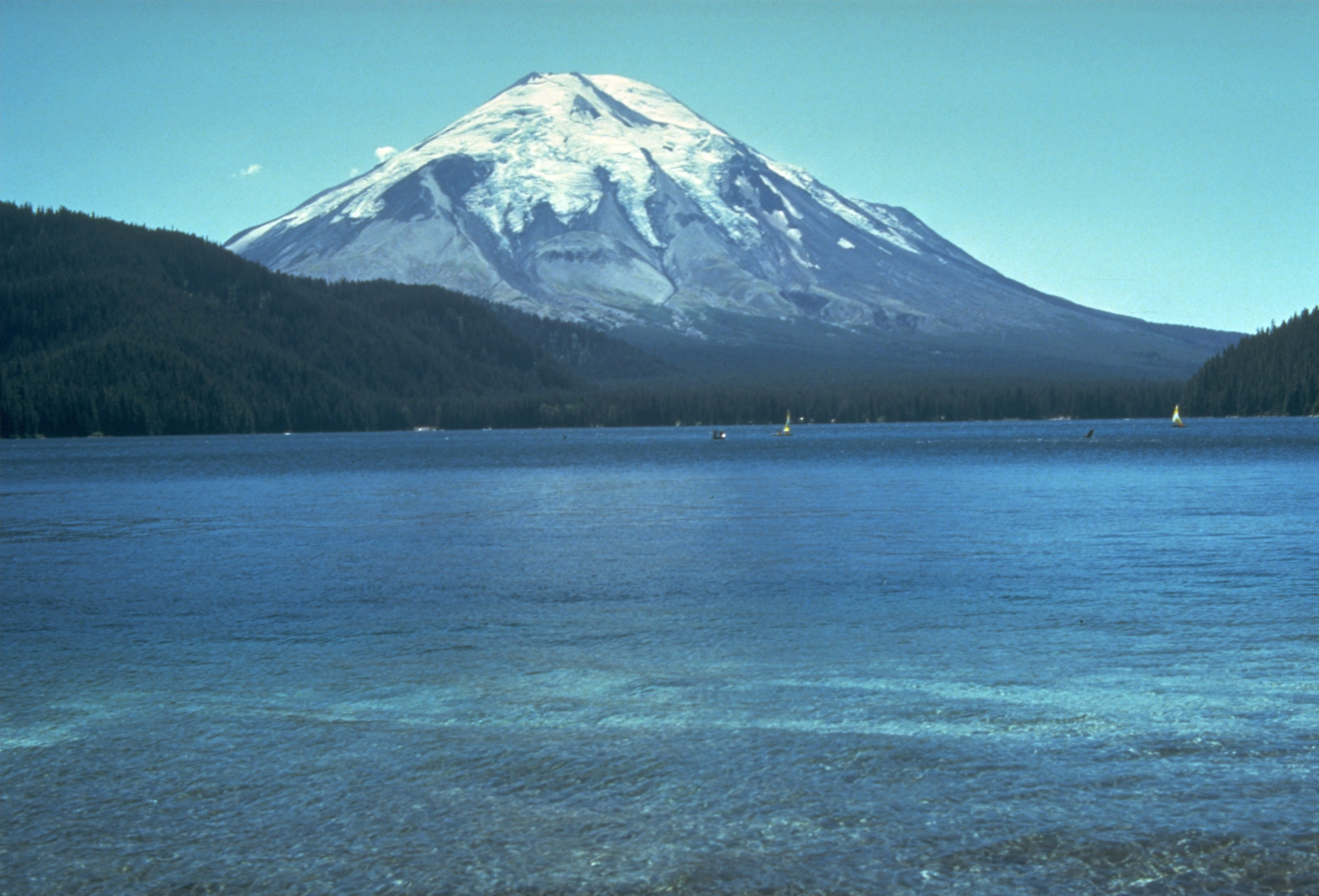 Mount St. Helens before the May 18, 1980 eruption. View from the northeast of Spirit Lake.